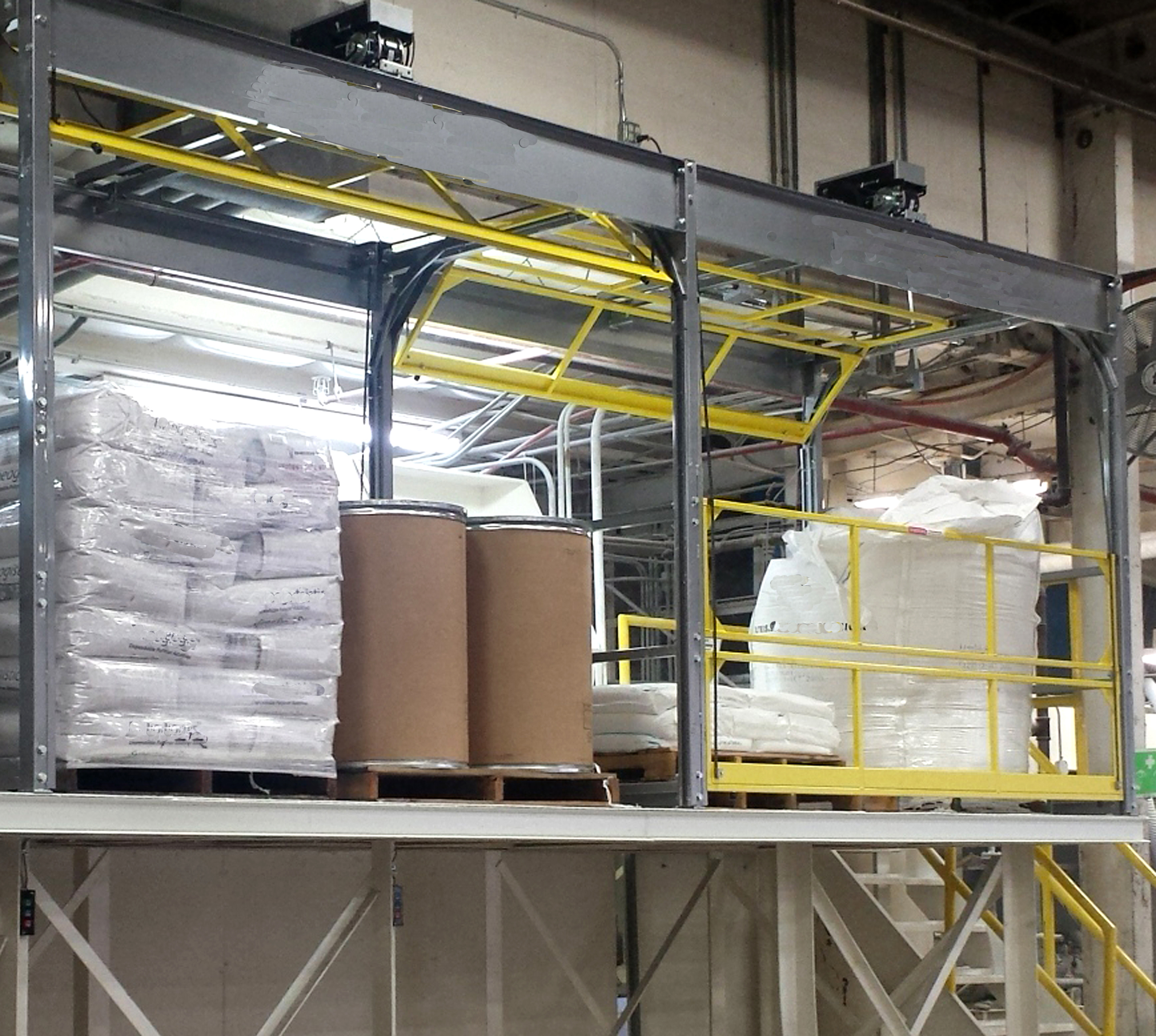 Roly Safety Gates, dual-gate safety systems from Mezzanine Safeti-Gates, Inc., ensure the safety of employees working pallet drop areas on ledges of mezzanines and elevated platforms in industrial facilities.